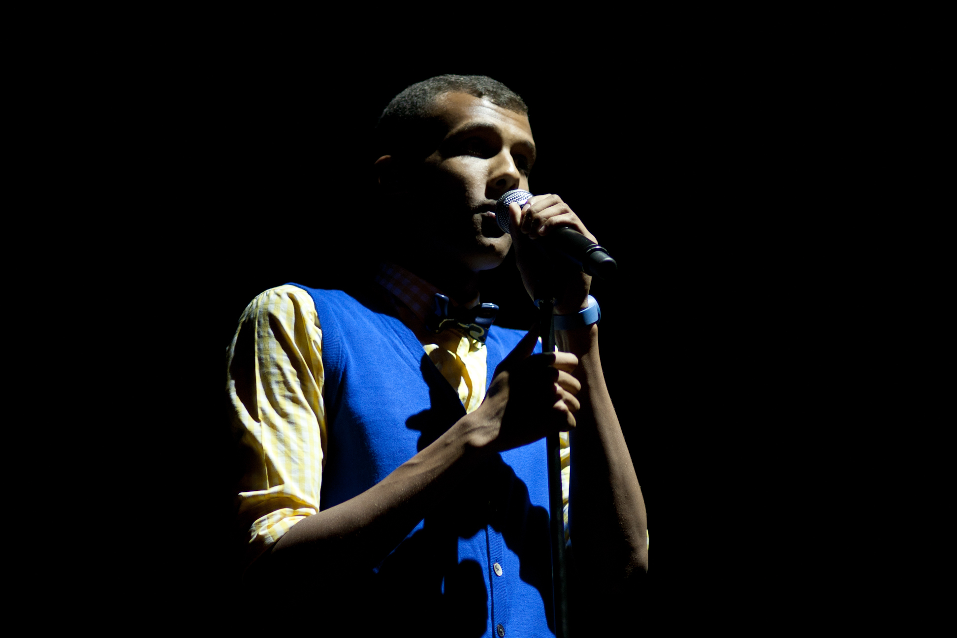 Follow me on facebook Twitter : @didyPhotography All the photographies I've made are now under CC0 (Creative Commons Zero) CC0 - learn more To the extent possible under law, Eddy BERTHIER has waived all copyright and related or neighboring rights to Stromae @ BSF 2011. This work is published from: France.